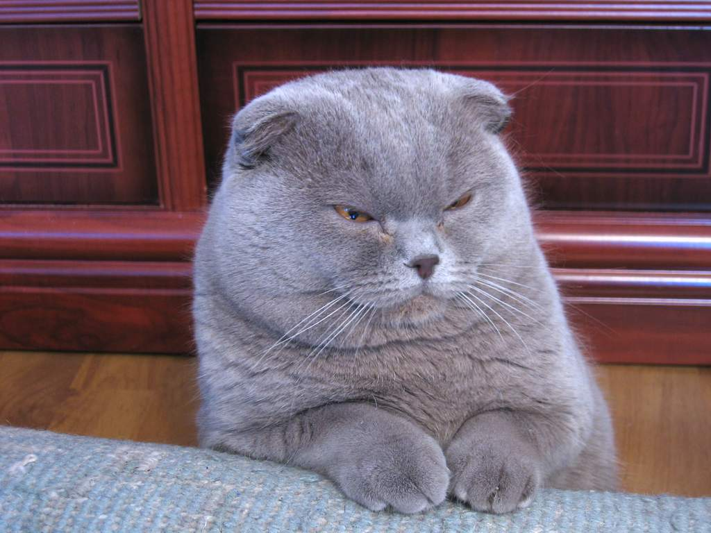 A Lilac Scottish Fold cat.